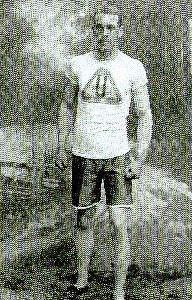 George W. Easton (1883-1966), a Scottish businessman, footballer and sportsperson in 1909, wearing Unitas Sports Club outfit.